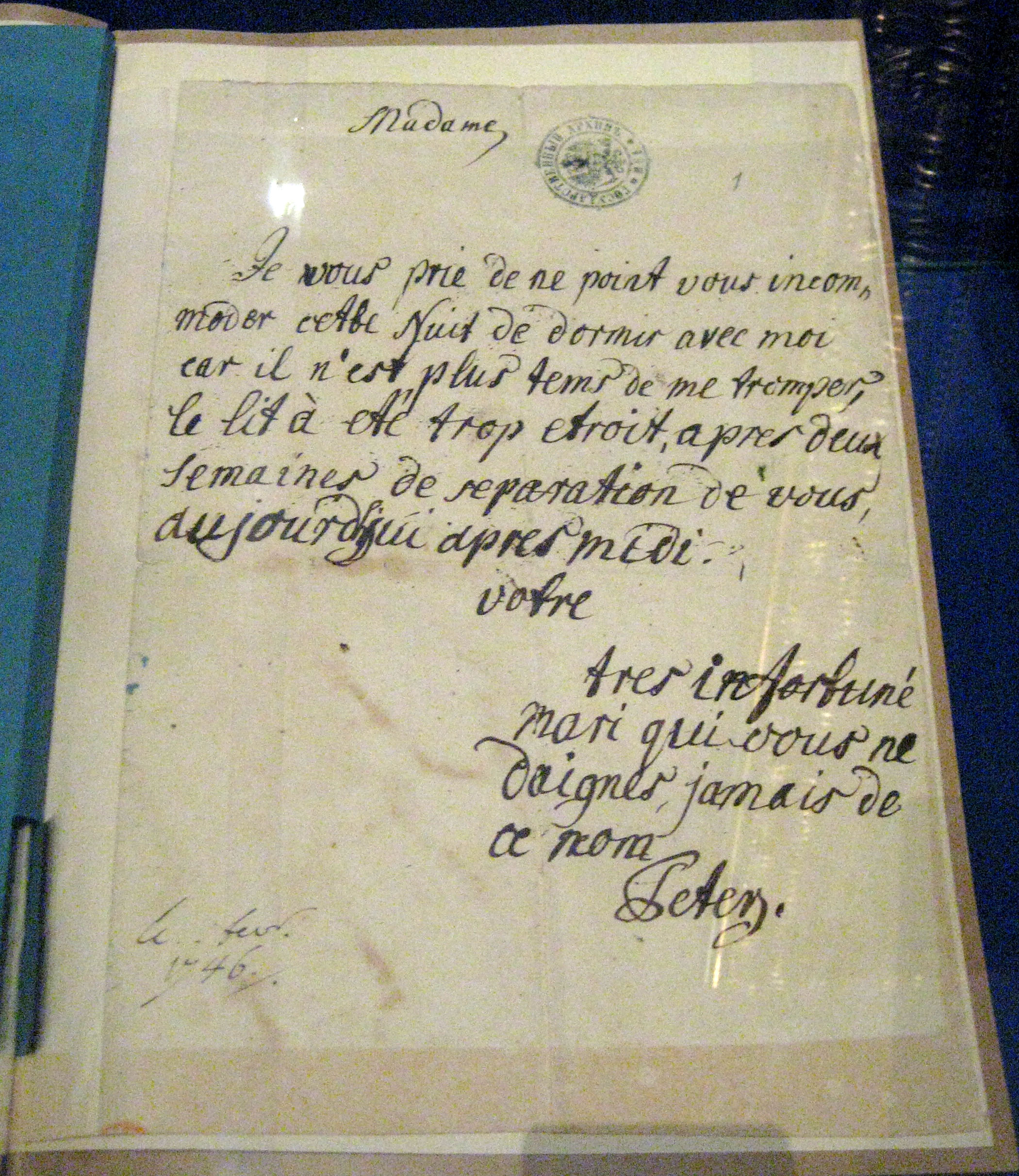 recto: Madame,/ Je vous prie de ne point vous incom-/ moder cette Nuit de dormir avec moi/ car il n′est plus tems de me tromper,/ le lit à eté trop etroit, apres deux/ semaines de separation de vous,/ aujourdhui apres midi./ votre/ tres infortuné/ mari qui vous ne/ daignes jamais de/ se nom/ Peter. recto bottom left: le .. fevr./ 1746./. Madame, I pray you not to inconvenience yourself by sleeping with me [t]onight for it is no longer time to deceive me. [T]he bed has been too narrow after two weeks of separation from you. [T]oday afternoon. Your very unfortunate husband who[m] you never condescend [to call by] this name[.] (sic) Peter. (cf. R. E. McGrew, Paul I of Russia, 1754-1801, Oxford: Clarendon Press, 1992, p. 23).